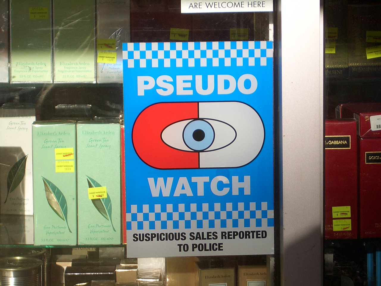 In the central section of Sale, Victoria